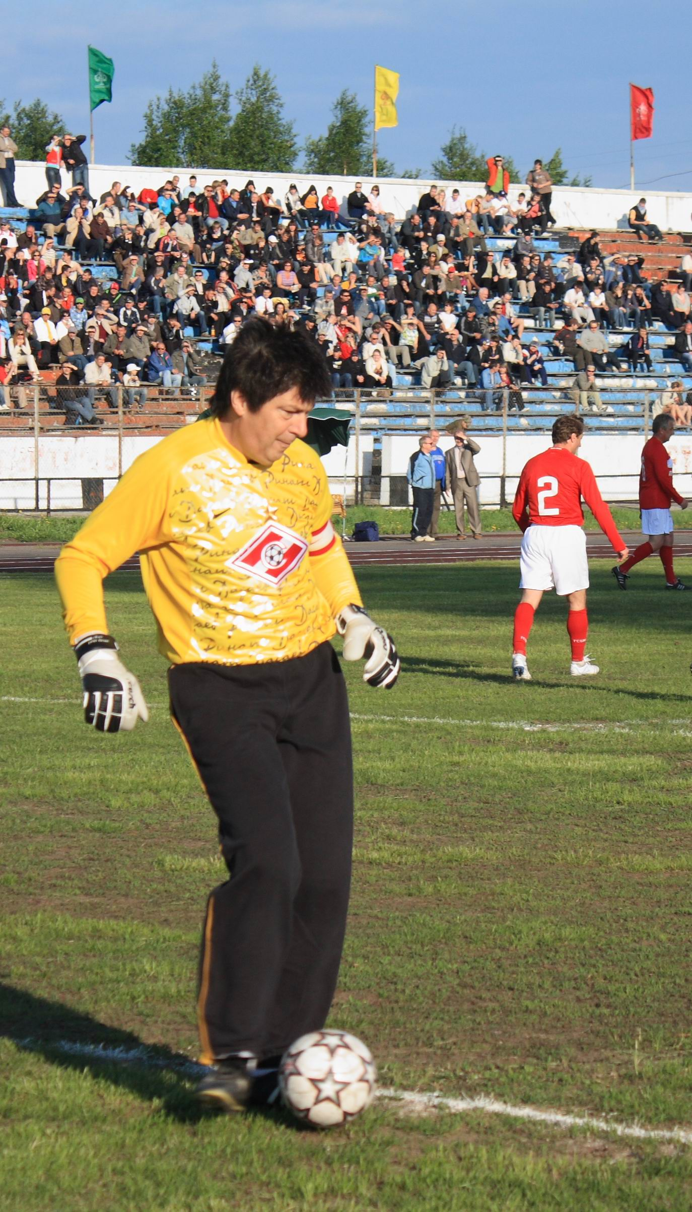 Rinat Fayzrakhmanovich Dasayev